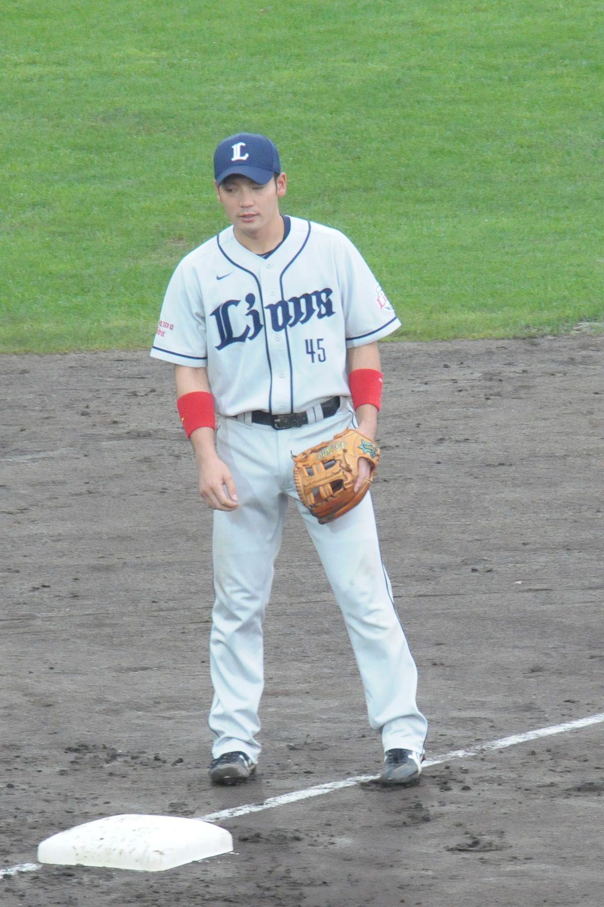 Ryo Hayashizaki, infielder of the Saitama Seibu Lions, at Akita Prefectural Baseball Stadium.